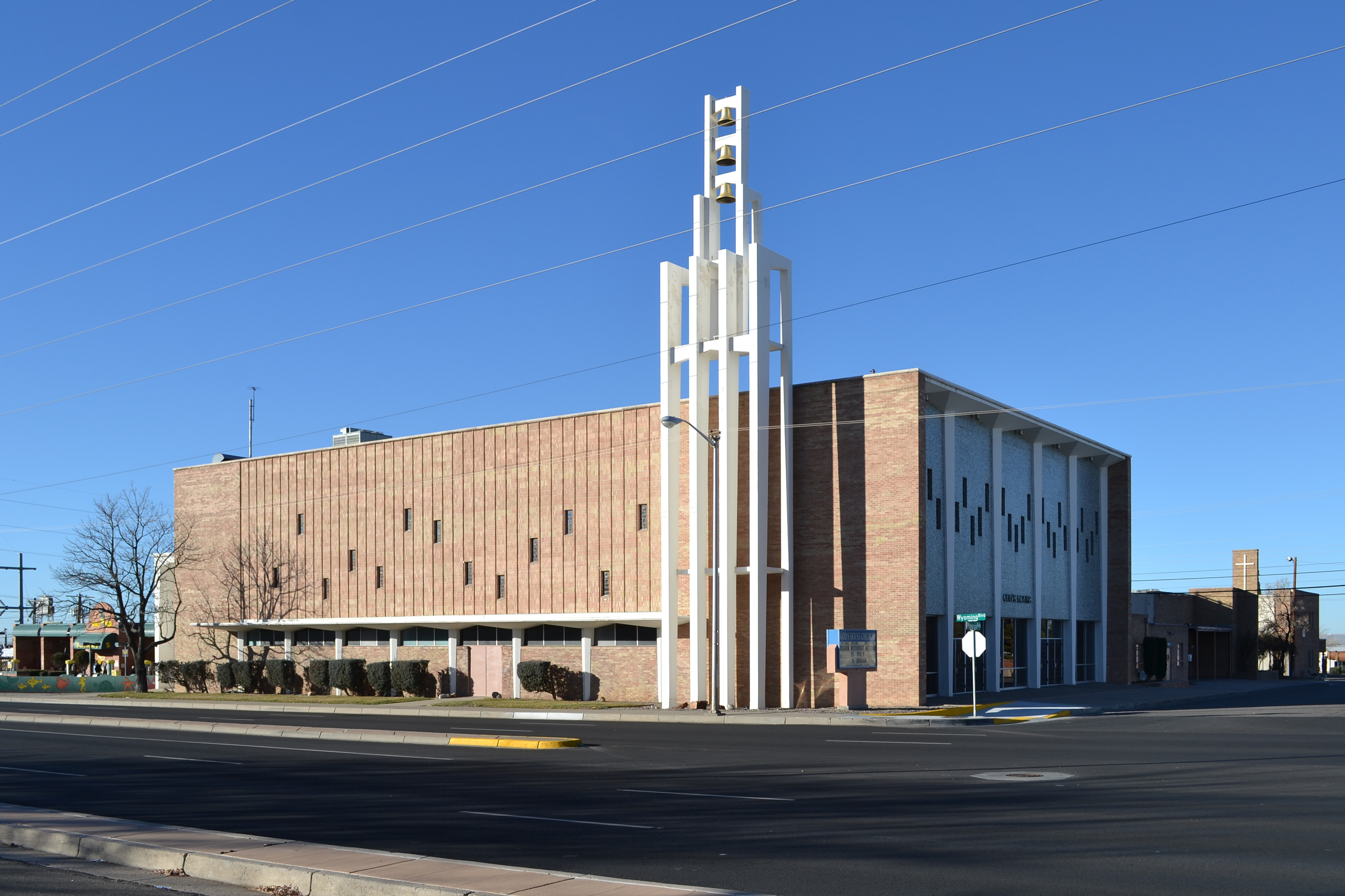 The former Hoffmantown Baptist Church Albuquerque, New Mexico, USA